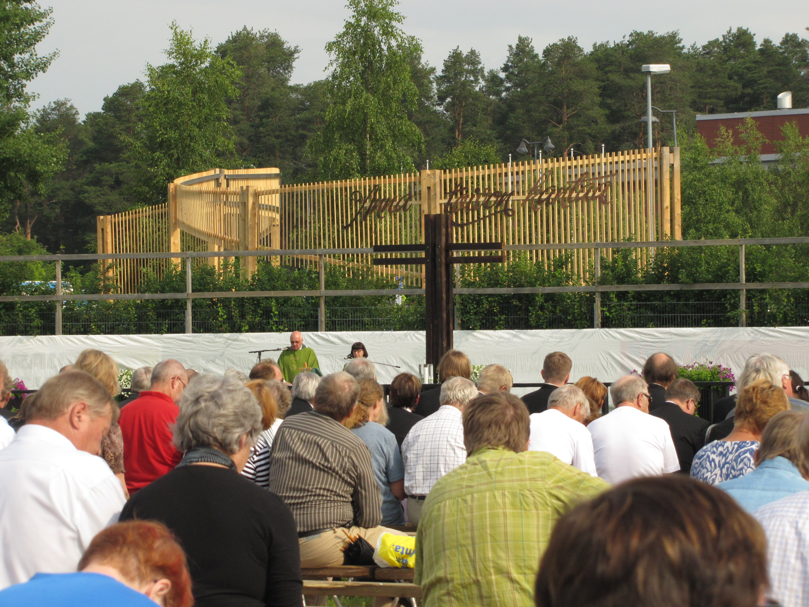 Awakening Summer Festival in Oulu 2011, outdoor mass celebration